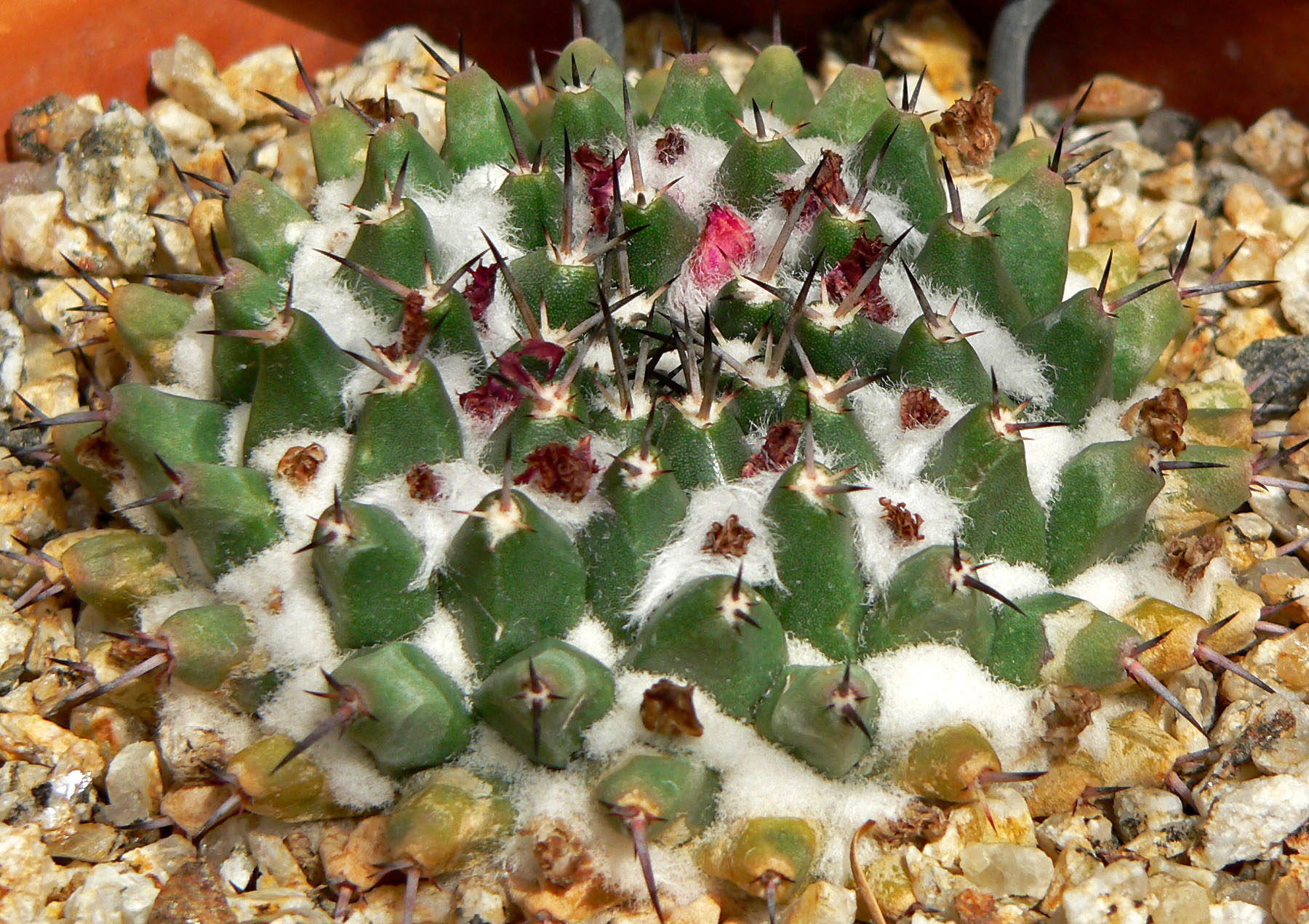 Mammillaria magnimamma at the University of California Botanical Garden, Berkeley, California